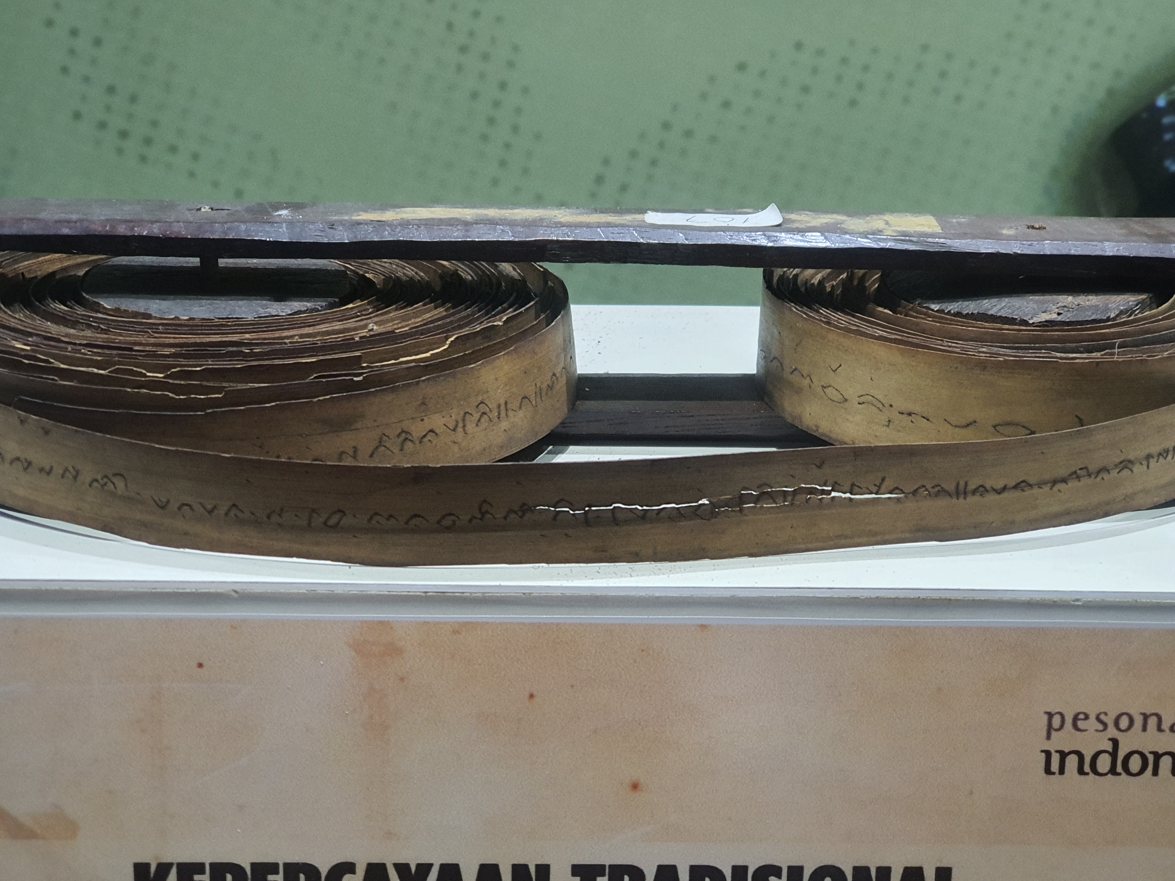 A Lontara scroll whose shape resembles that of a tape recorder. Collection of La Galigo Museum, Makassar, Indonesia.